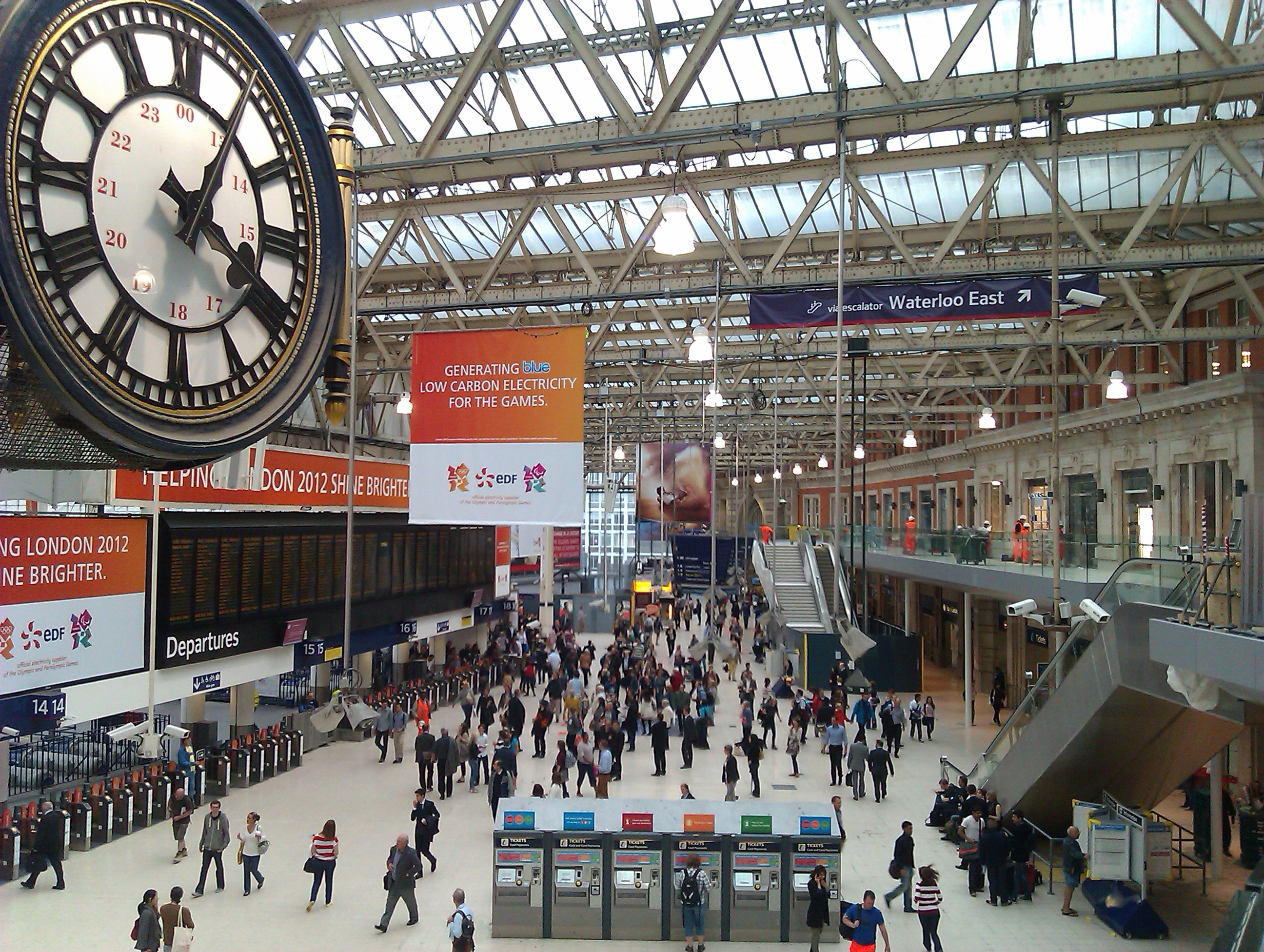 Waterloo station: concourse gallery development